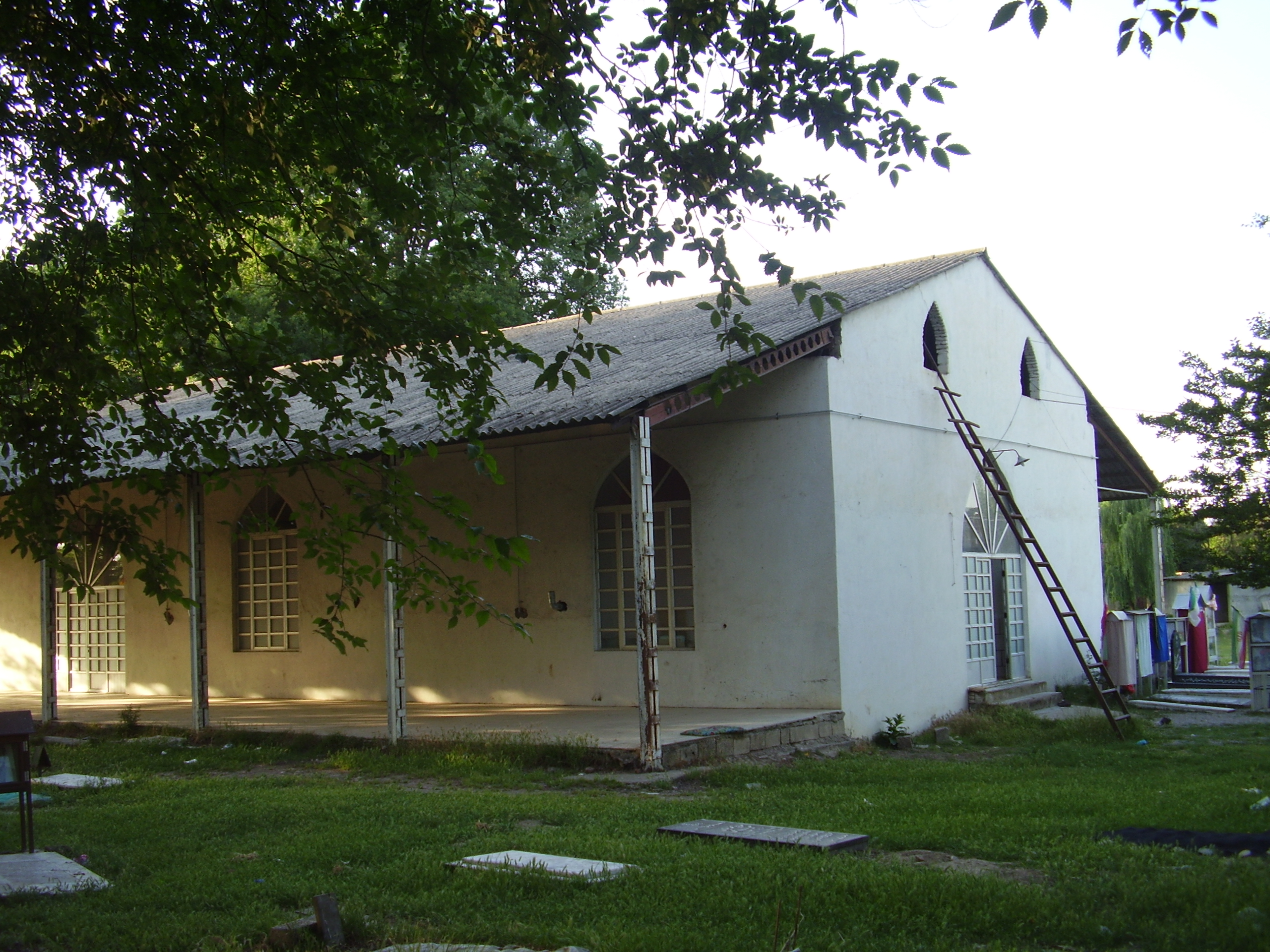 This is an image of the Shrine of Shaykh Tabarsi in Mazandaran, Iran.